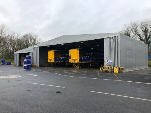 Warehouse